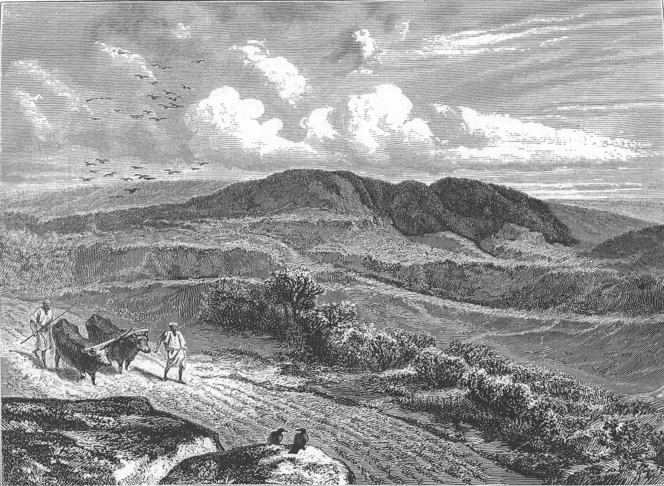 Image of the Sower Parable